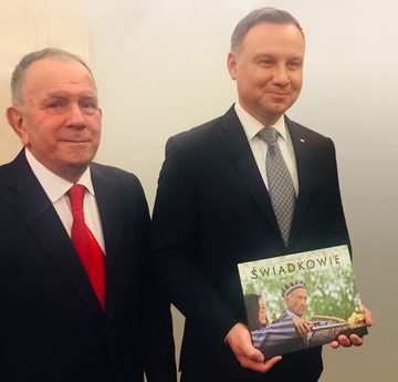 Witness Book with Polish President Revised